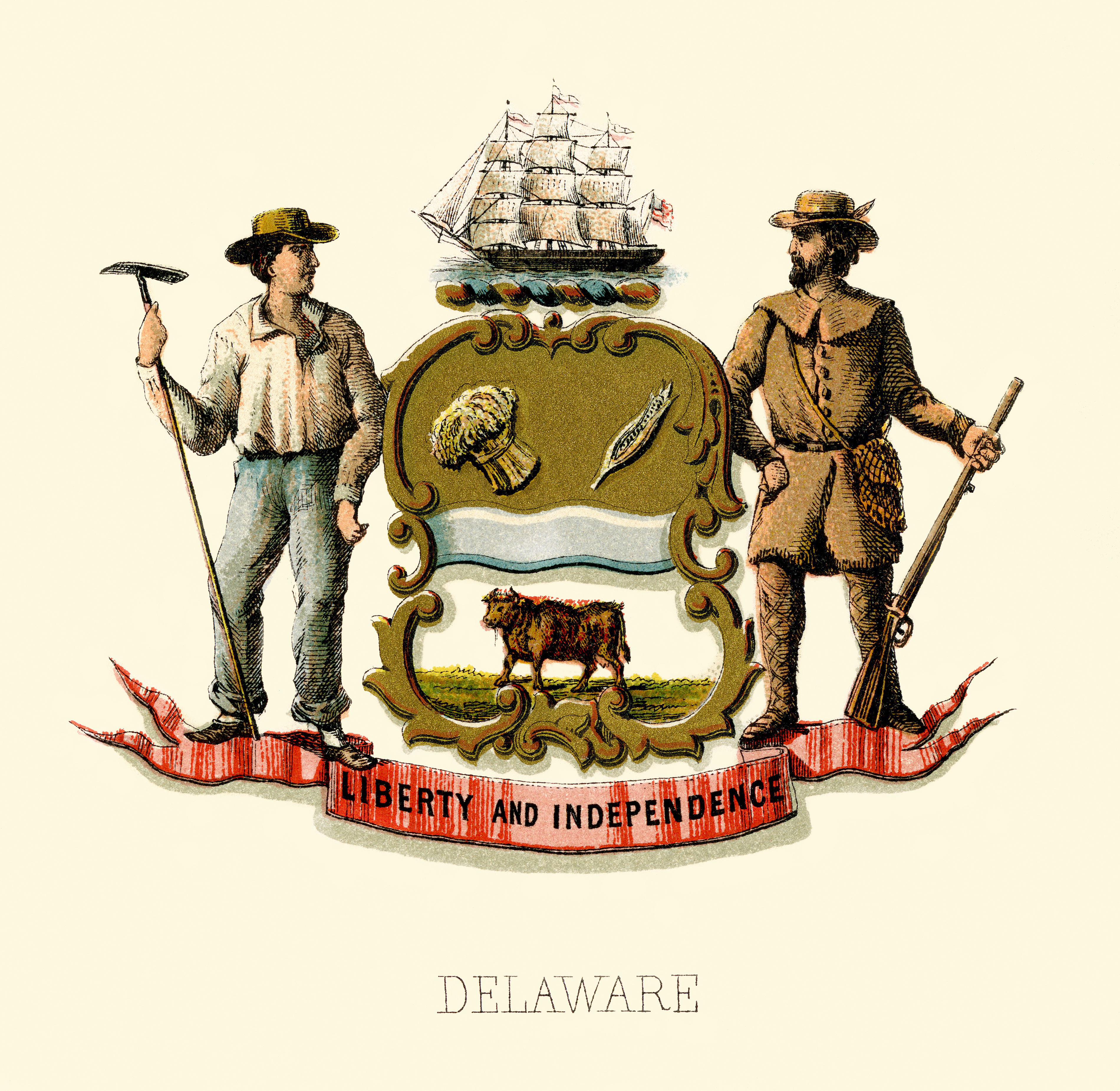 Delaware state coat of arms